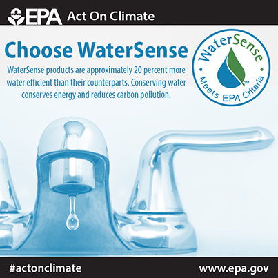 Have some sense. WaterSense that is. The average household can #ActOnClimate while saving 500 gallons of water a year!